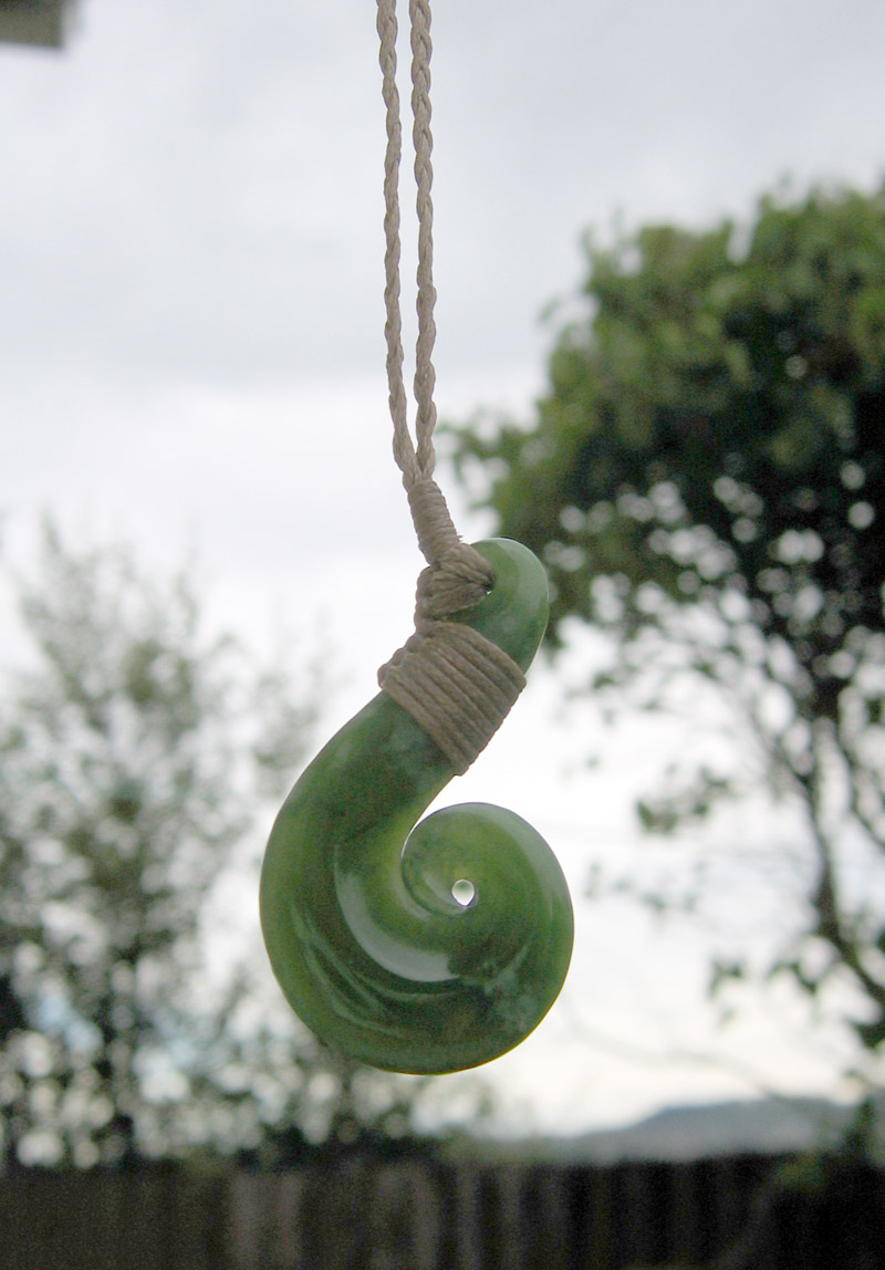 A pounamu pendant, photographed in Dunedin, New Zealand